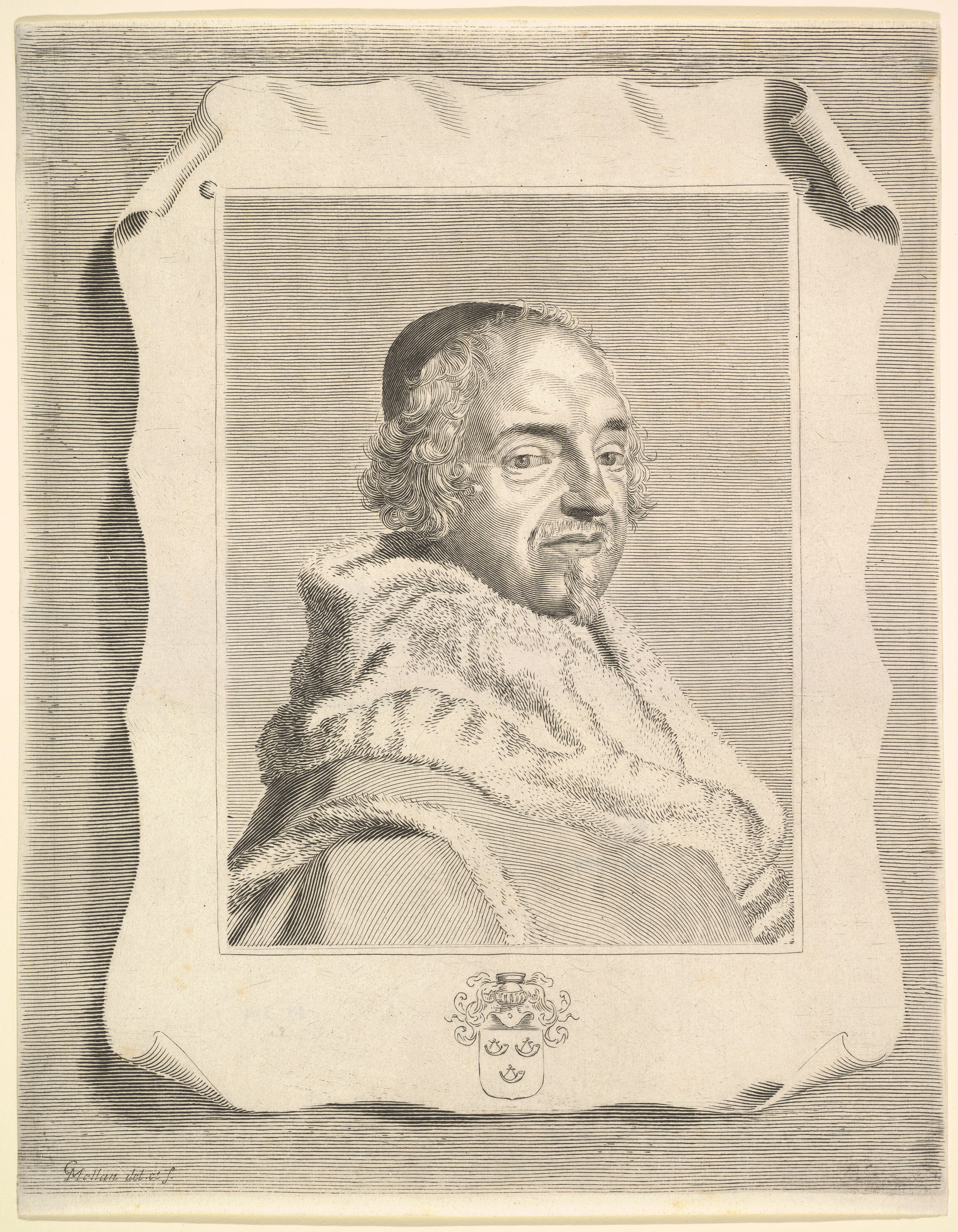 Print; Prints